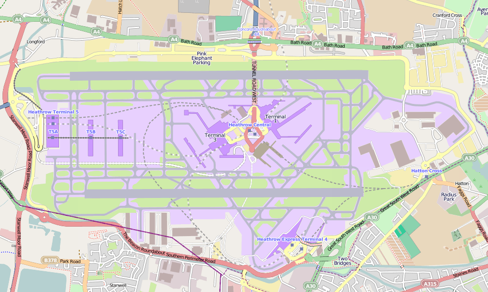 Map of Heathrow Airport from Open Street Map